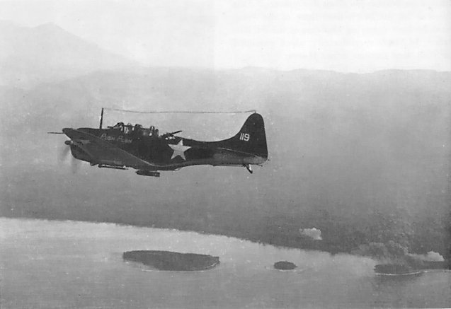 A Douglas SBD-5 Dauntless of U.S. Marine Corps scout/bombing squadron VMSB-144 Hensagliska turns toward the beachhead area prior to peeling off in one of the prelanding airstrikes at Cape Torokina, Bougainville Island, Solomon Islands, on 1 November 1943.